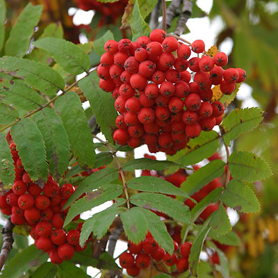 European Rowan